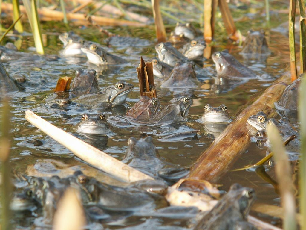 Common Frogs (Rana temporaria) gathered during the breeding season in the Veluwe, the Netherlands. They get a greyish hue and a conspicious white throat.